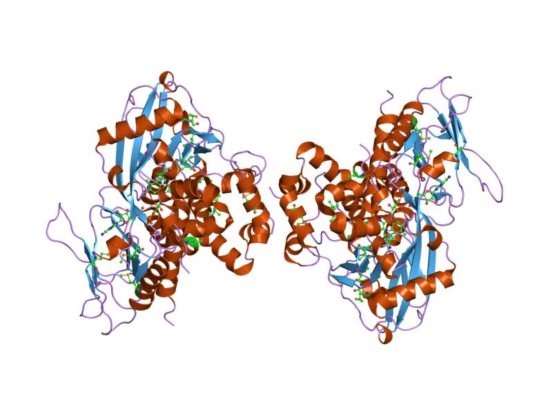 Cartoon representation of the molecular structure of protein registered with 1sez code.